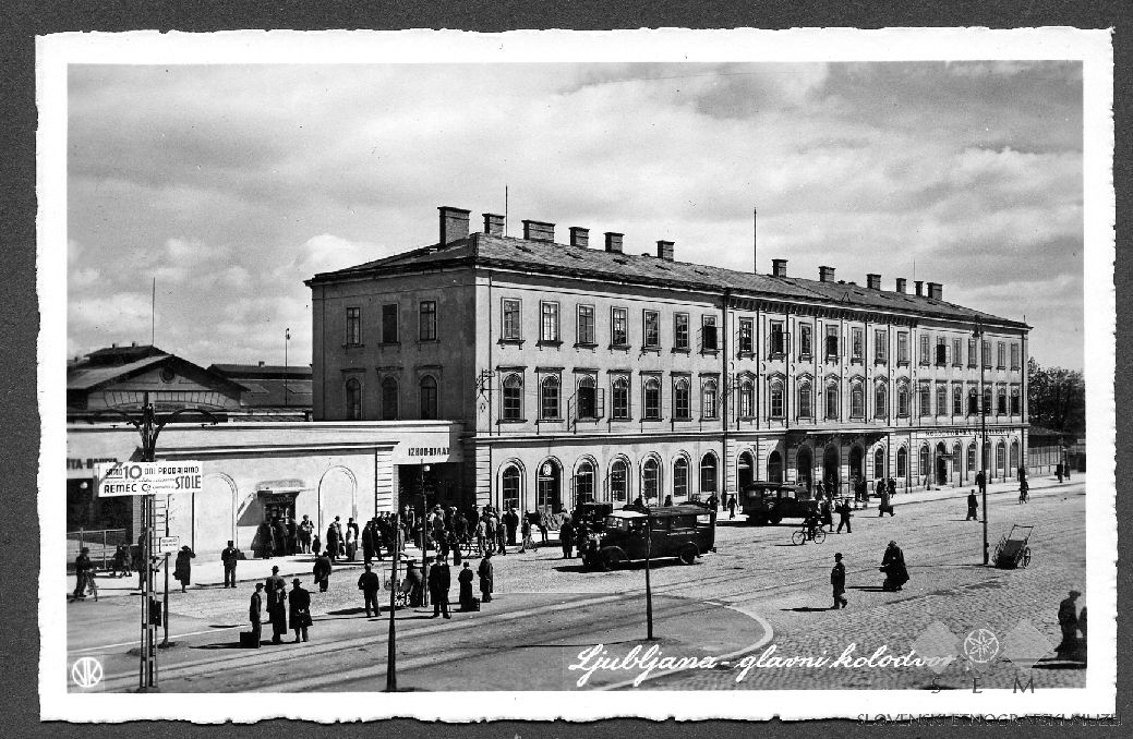 Postcard of Ljubljana train station